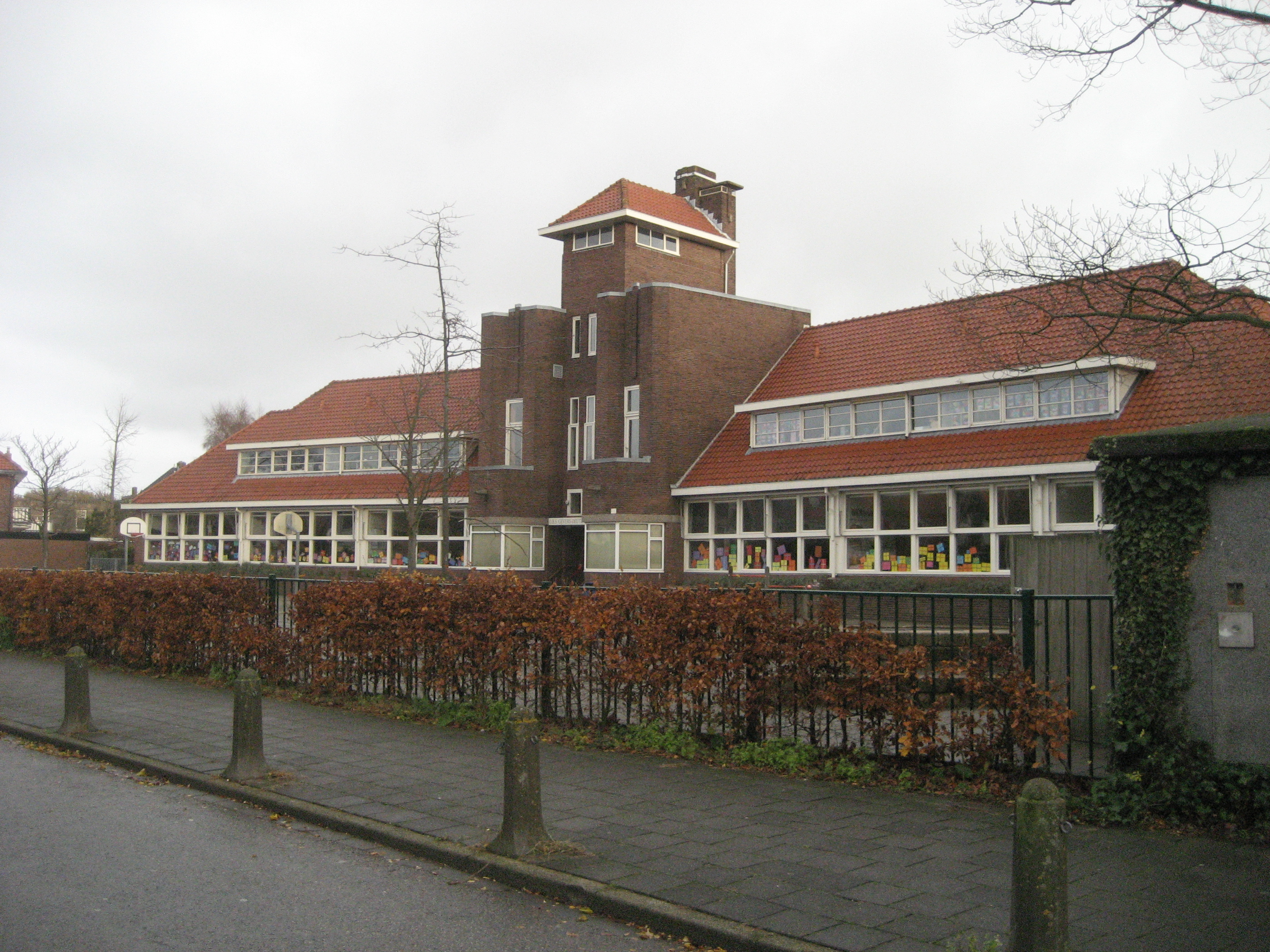 Public school Gevers-Deutz-Terwee, Terweeweg 106, 2341 CV Oegstgeest. Architect Arnold Kraan.